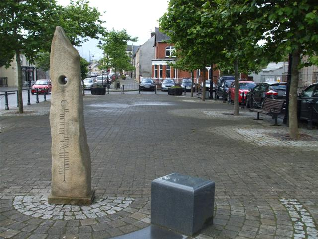 Modern Ogham stone in The Diamond area of Lifford, County Donegal, Ireland. From bottom to top: DONEGAL CO CL (Donegal County Council).